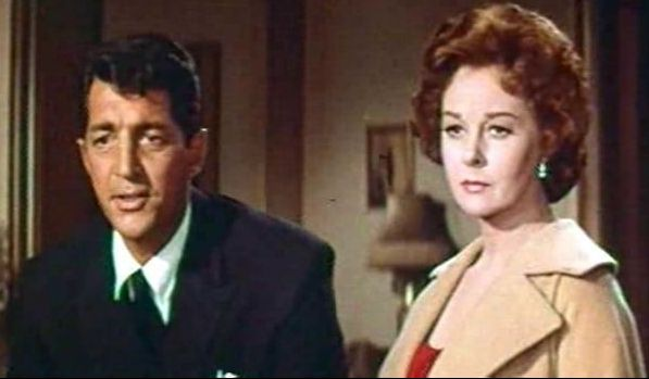 Screenshot of Dean Martin and Susan Hayward from the trailer for the film Ada